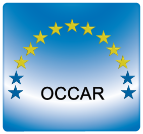 OCCAR Logo 2014